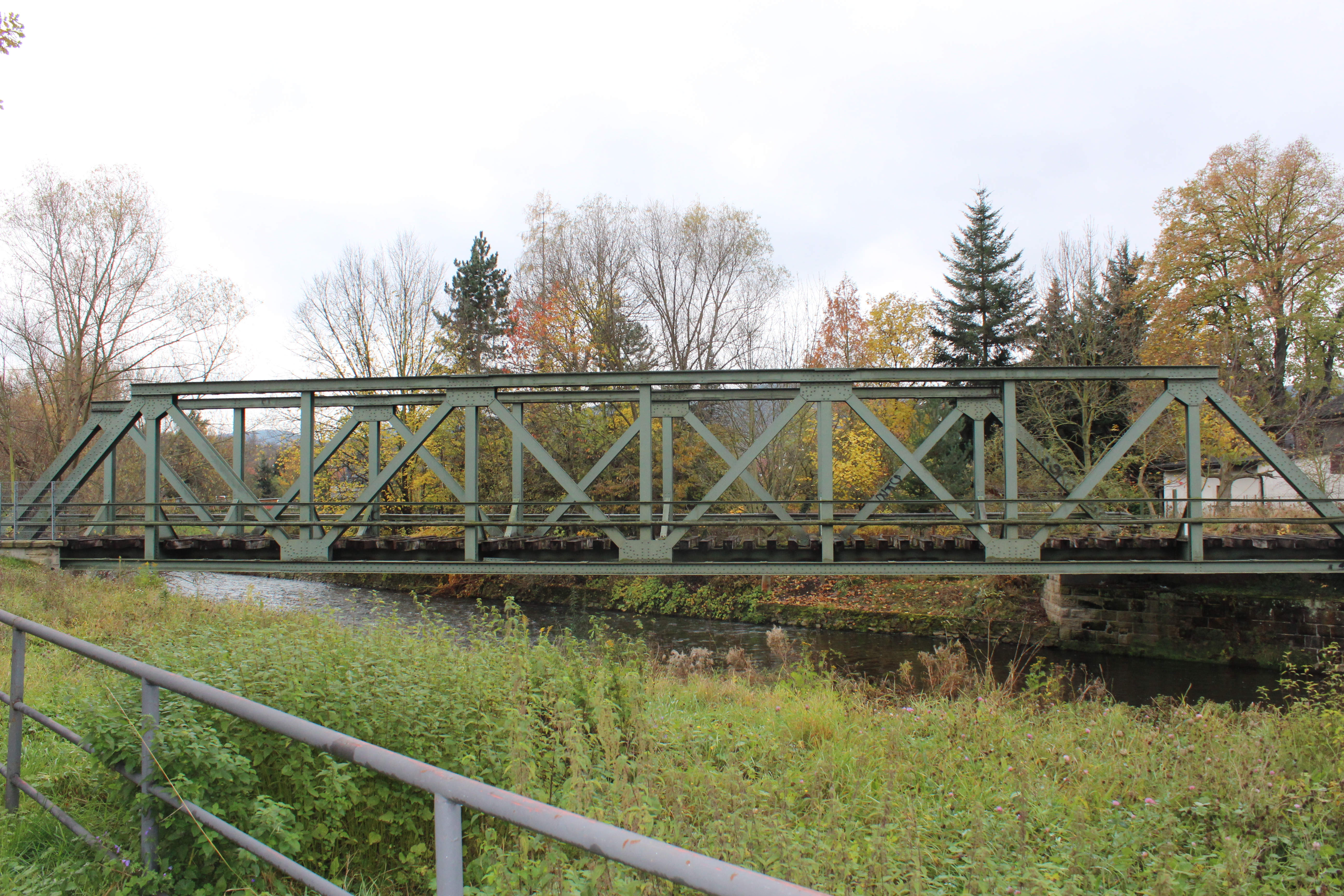 railway bridge in Rudolstadt